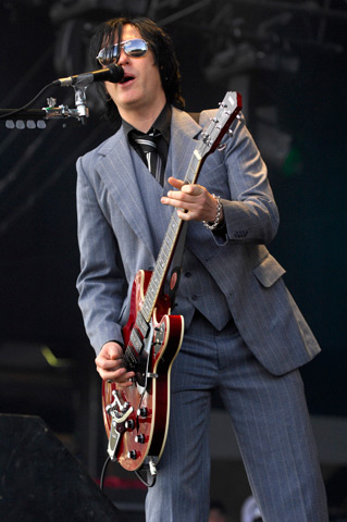 Troy Van Leeuwen's photo